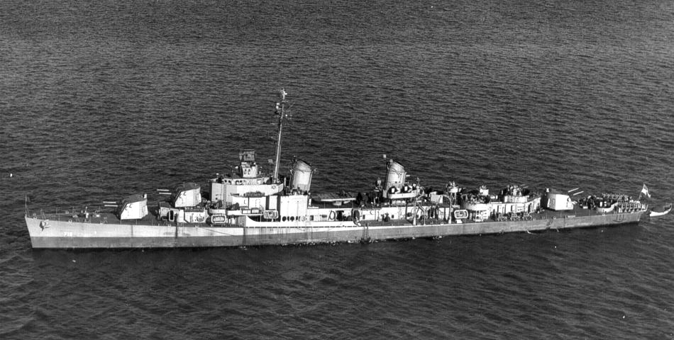 The U.S. Navy destroyer USS William M. Wood (DD-715). She was commissioned on 24 November 1945 and is painted in wartime Camouflage Measure 22. Note that her after set of torpedo tubes have been replaced by a third quadruple 40 mm/60 Mk 2 mount.